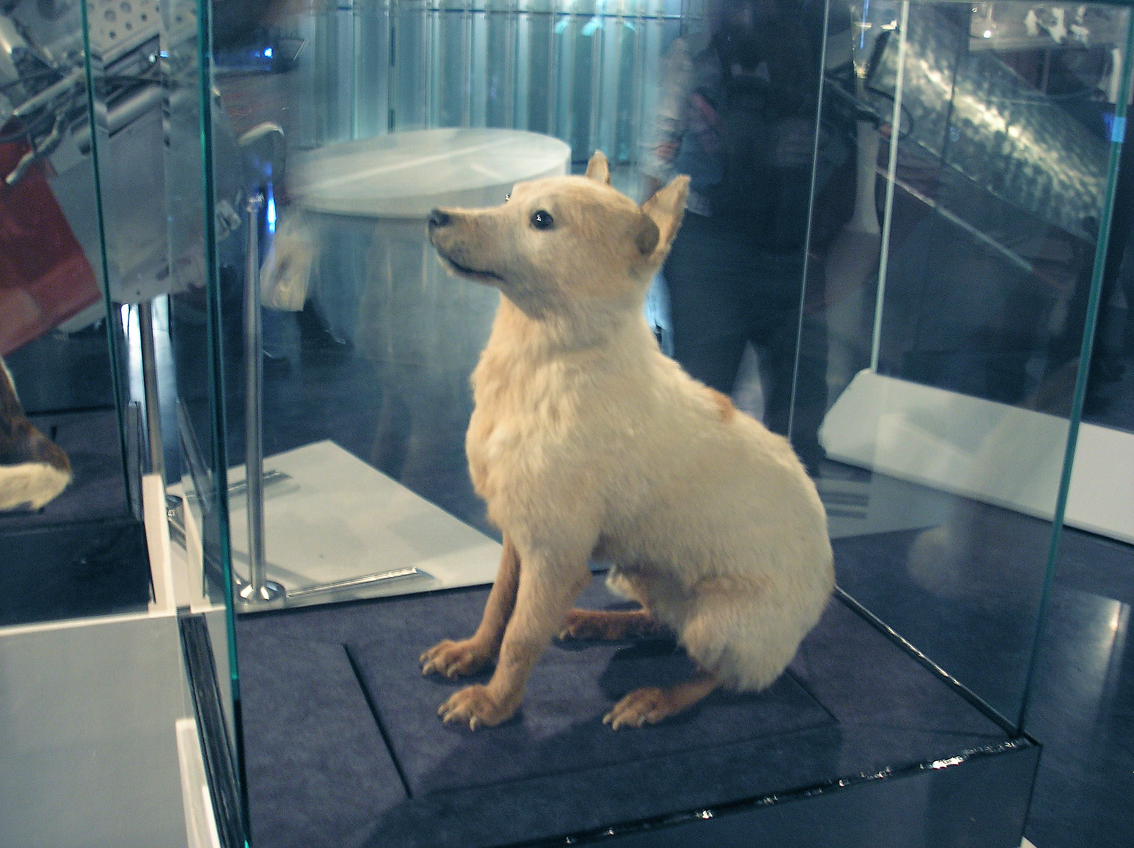 Soviet Space dog Belka